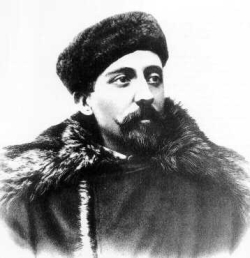 Photograph of Adrien de Gerlache, leader of the Belgica Antarctic expedition (1897–1899).